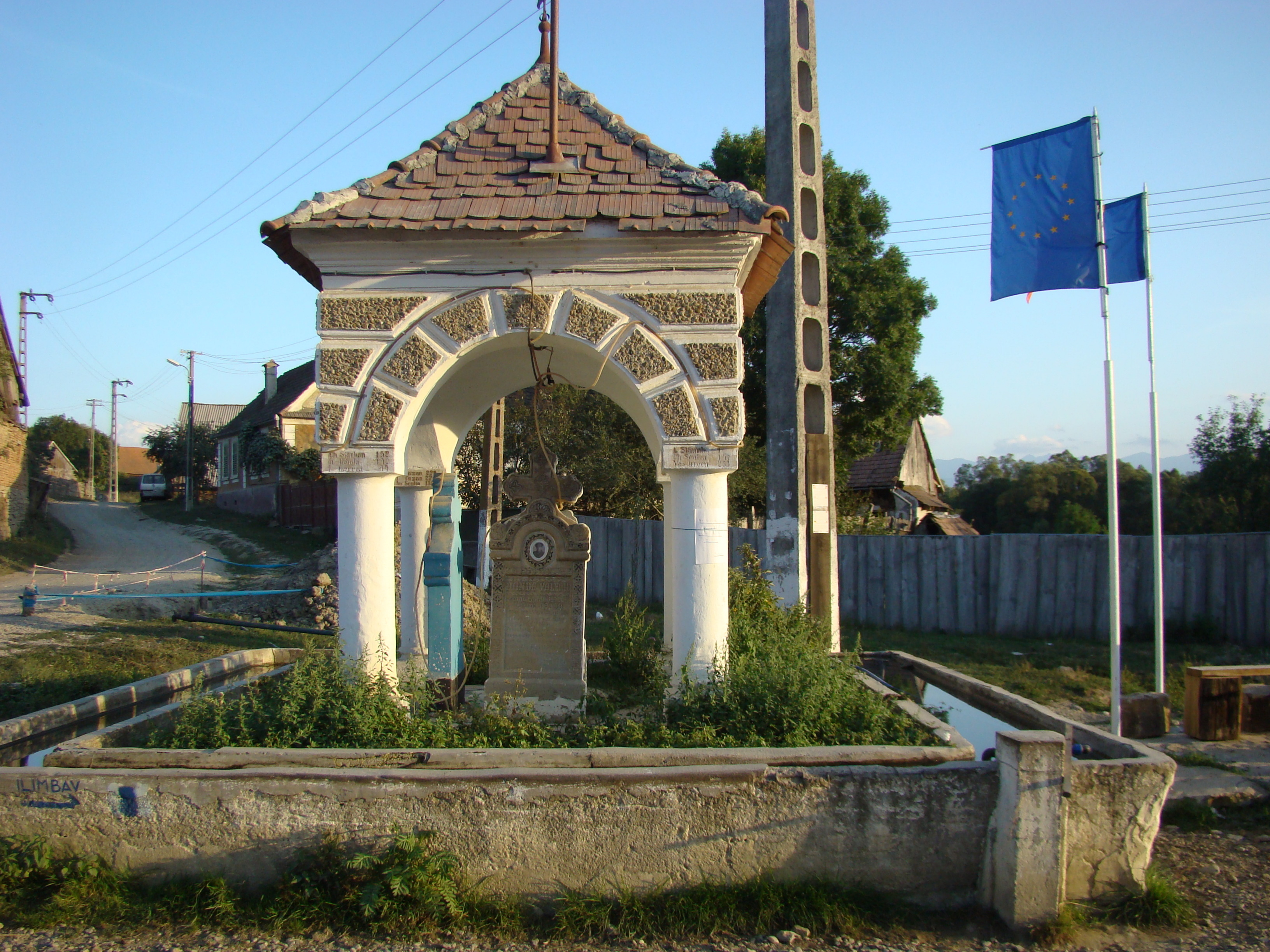 Săsăuș, Sibiu county, Romania